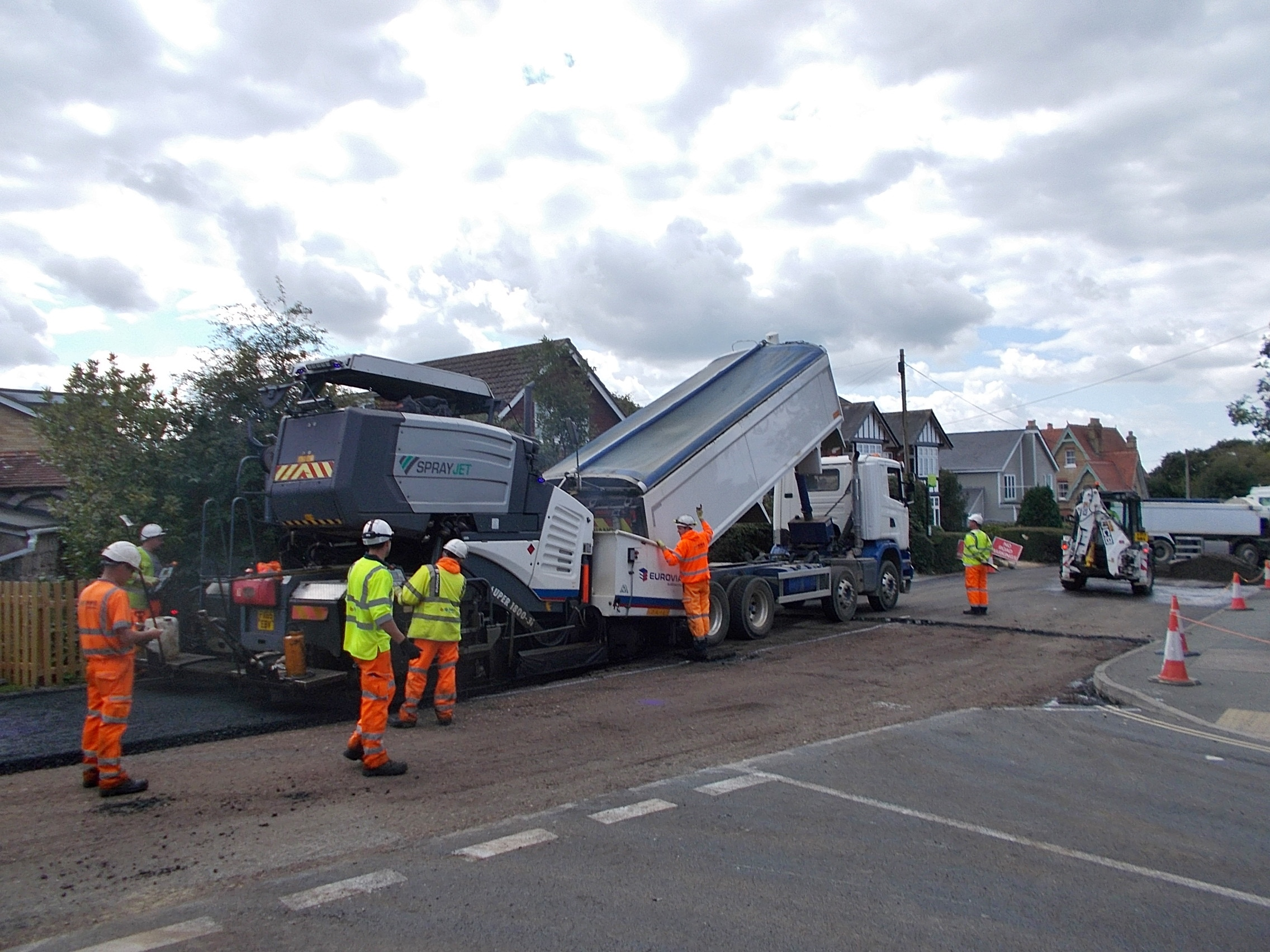 Road resurfacing near Cowes, Isle of Wight, UK